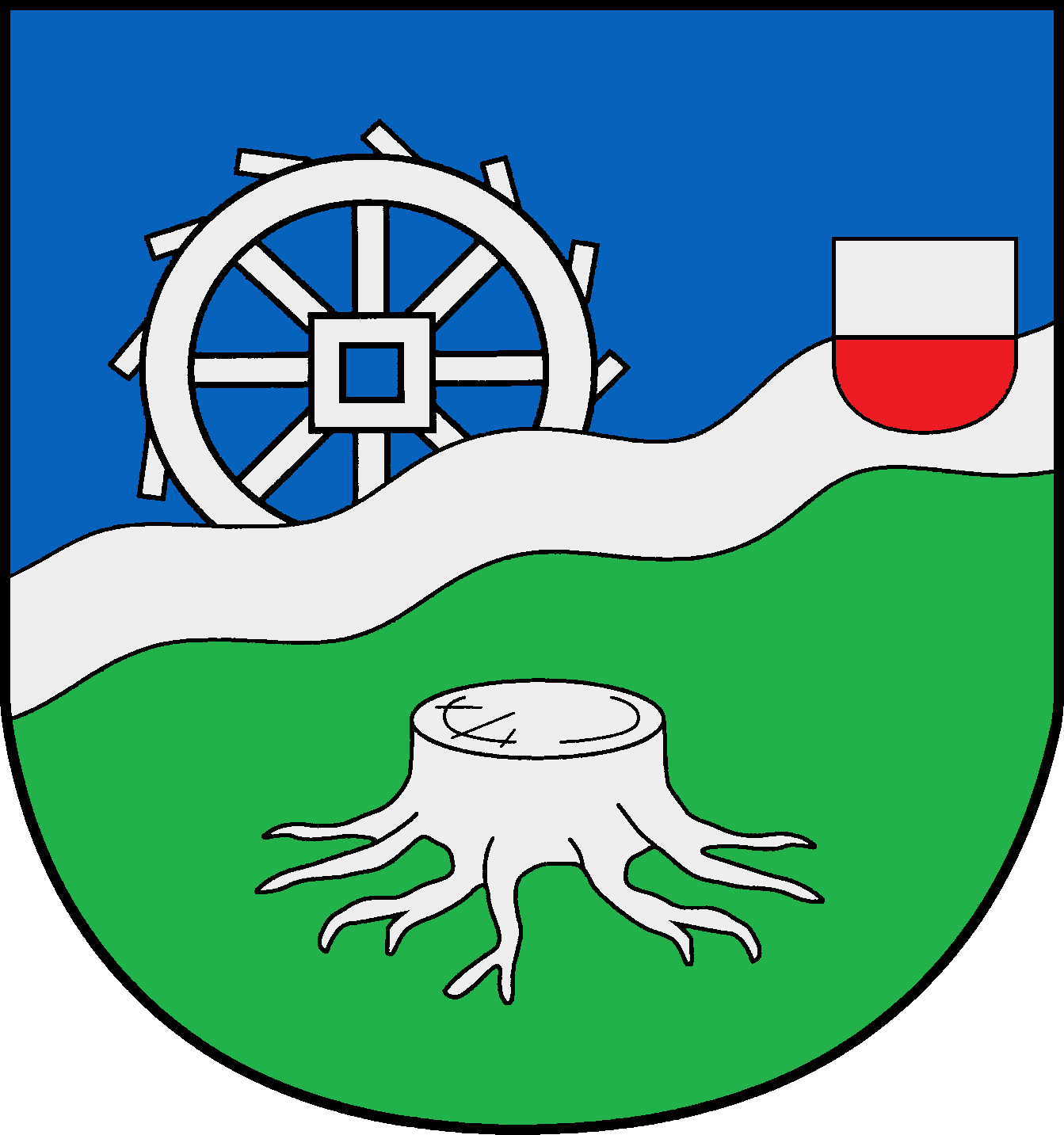 Coat of arms of the municipality Sierksrade in Schleswig-Holstein, Germany.